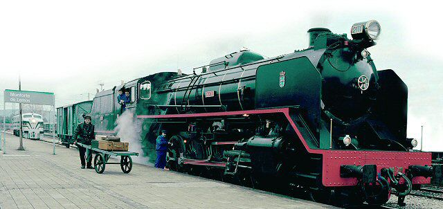 Old mikado steam machine restaured on Monforte's railroad station. It has been restored in order to be used on Galicia's railroad museum, placed on the city of Monforte.